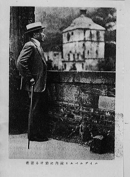 Kita Reikichi (北れい吉), philosophy teacher and political activist in Heidelberg (Germany), in 1921.